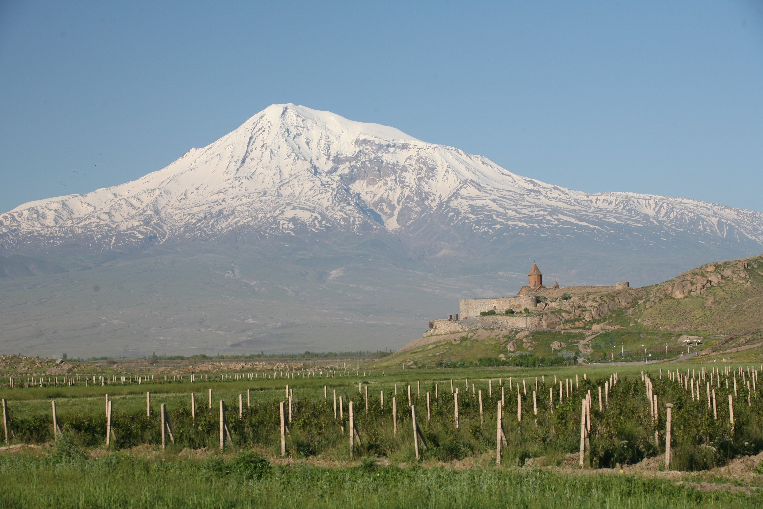 Khor-Virap Monastery